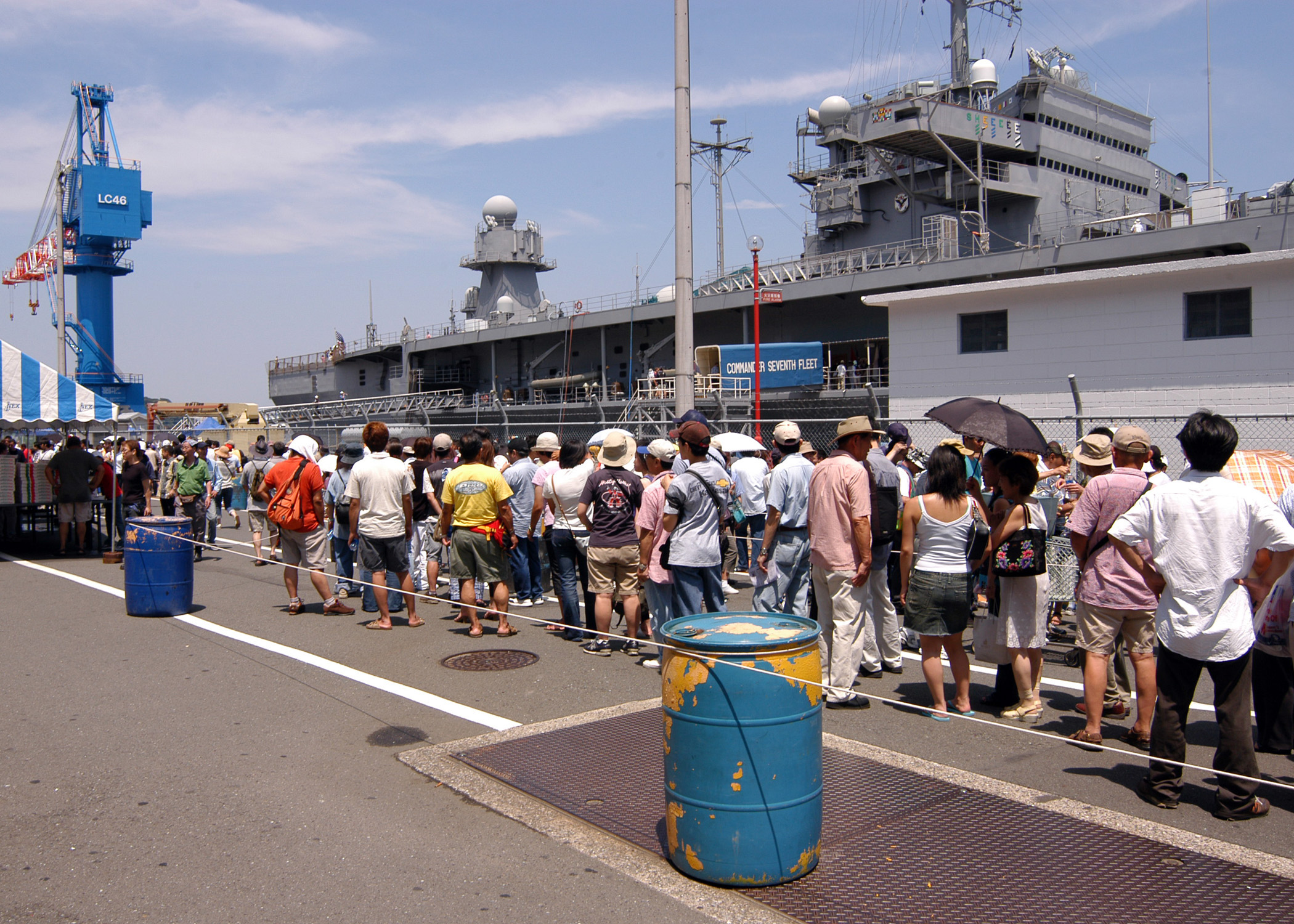 Yokosuka, Japan (Aug. 7, 2005) - Japanese visitors wait in line for the opportunity to tour USS Blue Ridge (LCC 19), during a Friendship Day event held on board Fleet Activities Yokosuka, Japan. Approximately 10,000 Japanese citizens toured the 7th Fleet command ship during Friendship Day, an annual "Open House" event held on board Fleet Activities Yokosuka to honor the friendly relationship between the local Navy and Japanese communities. U.S. Navy photo by Photographer's Mate 3rd Class Tucker M. Yates (RELEASED)